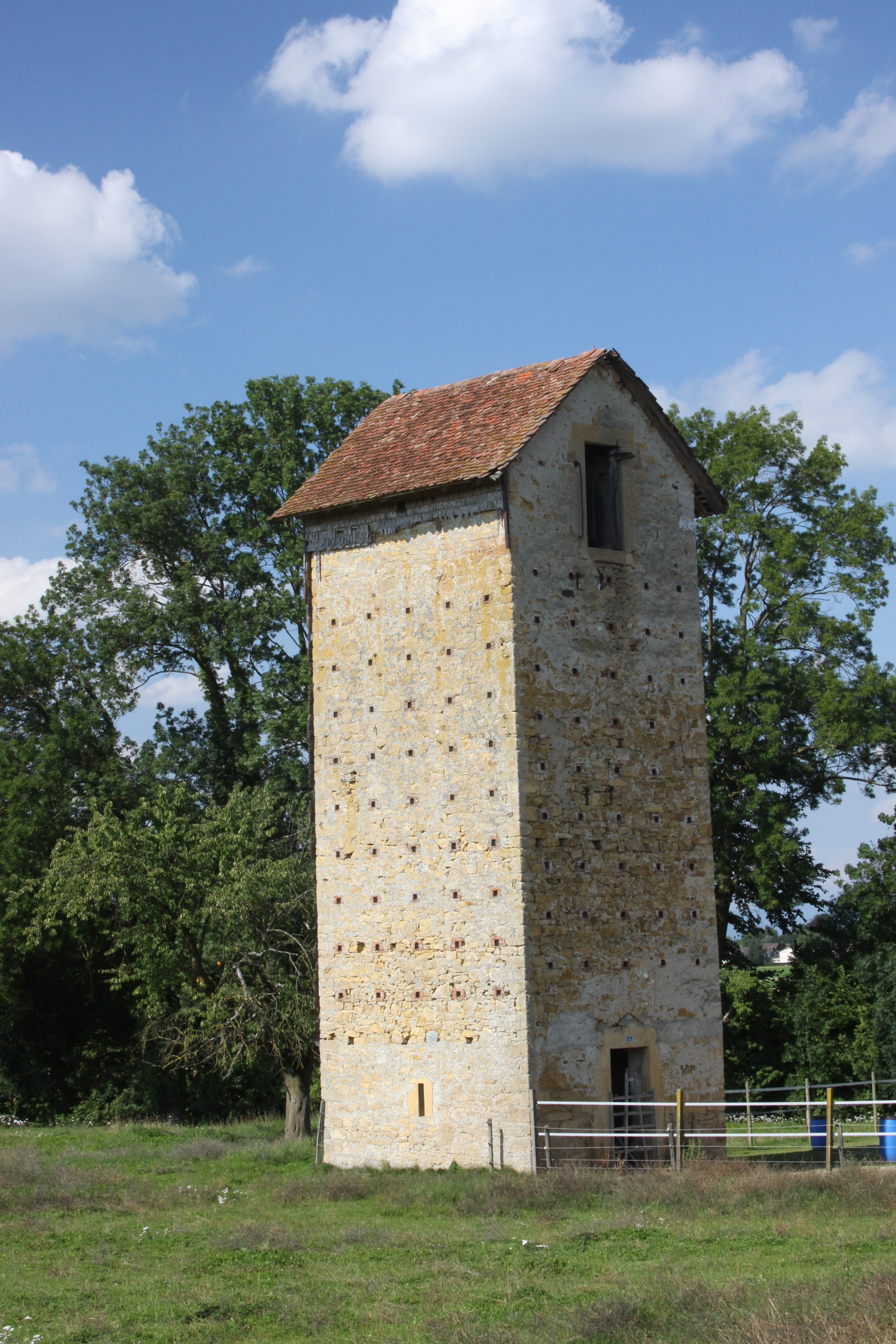 Grain Elevator, Bureliweg 1a, Greng